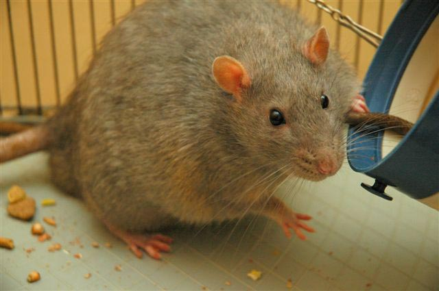 This is a Zucker Rat, a pet rat that has developed diabetes as a result of a genetic disorder that causes obesity. Photo: Joanna Servaes (With thank from her website)